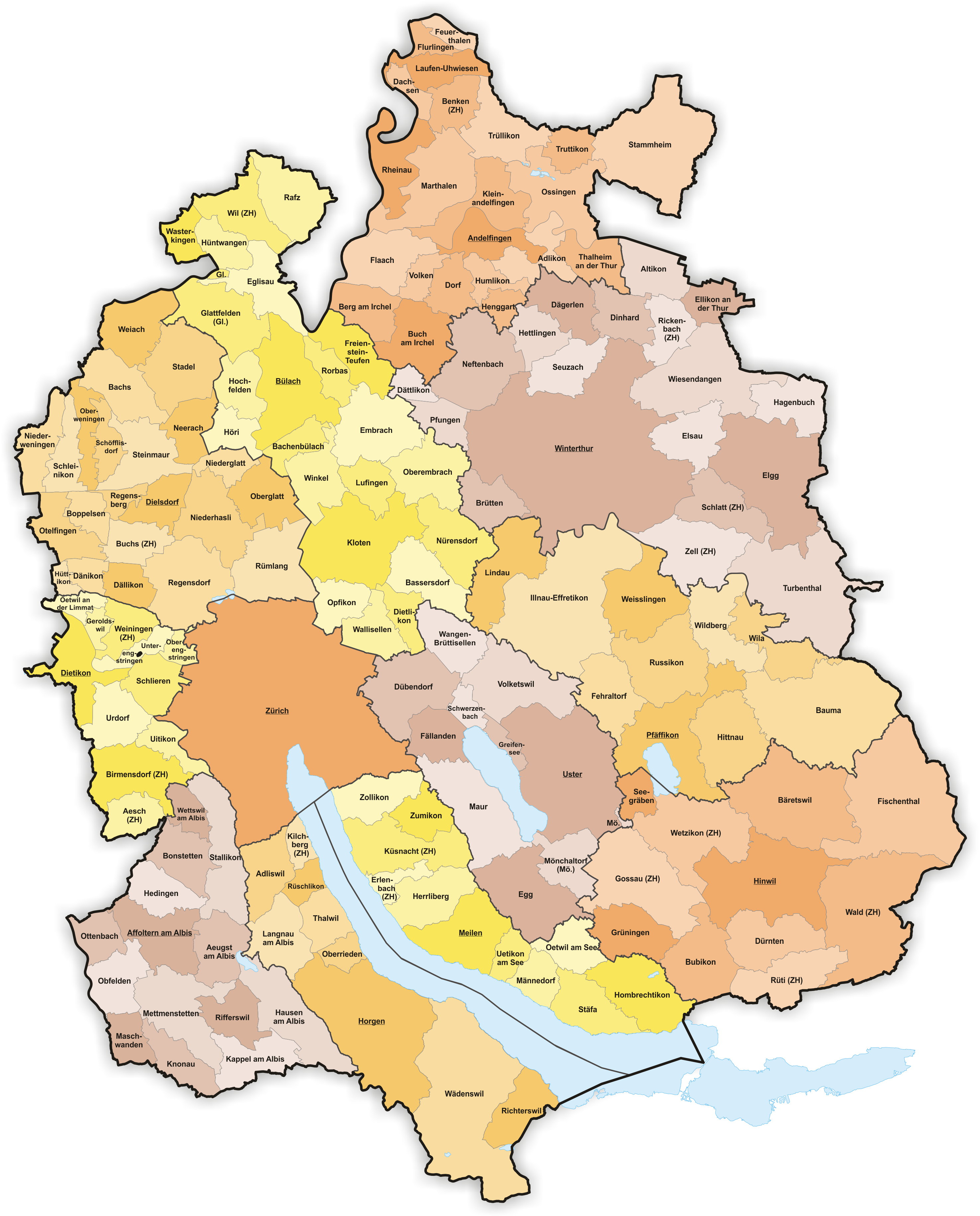 Municipalities in Canton Zürich